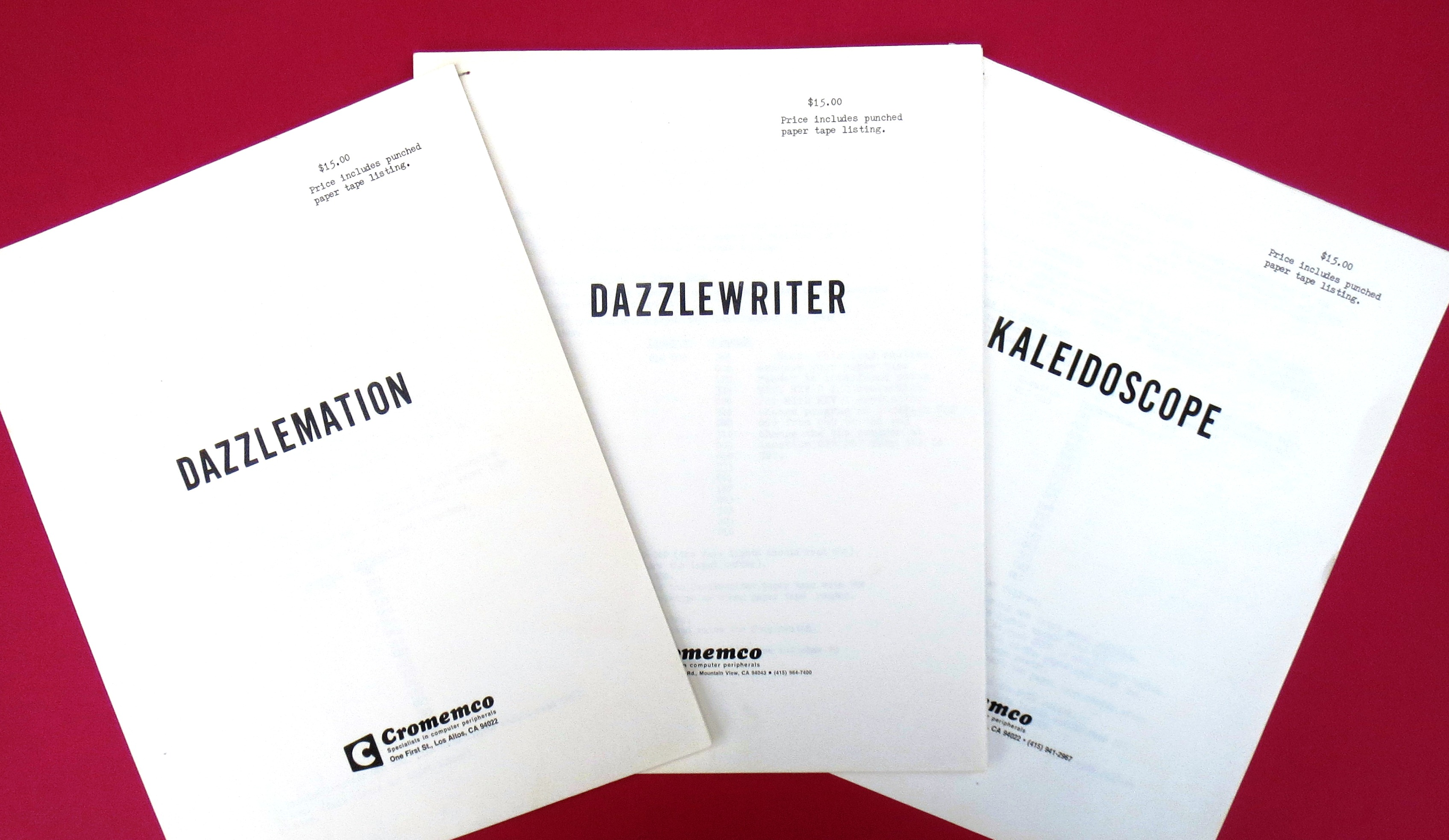 Early software for Cromemco Dazzler, the first microcomputer color graphics interface.